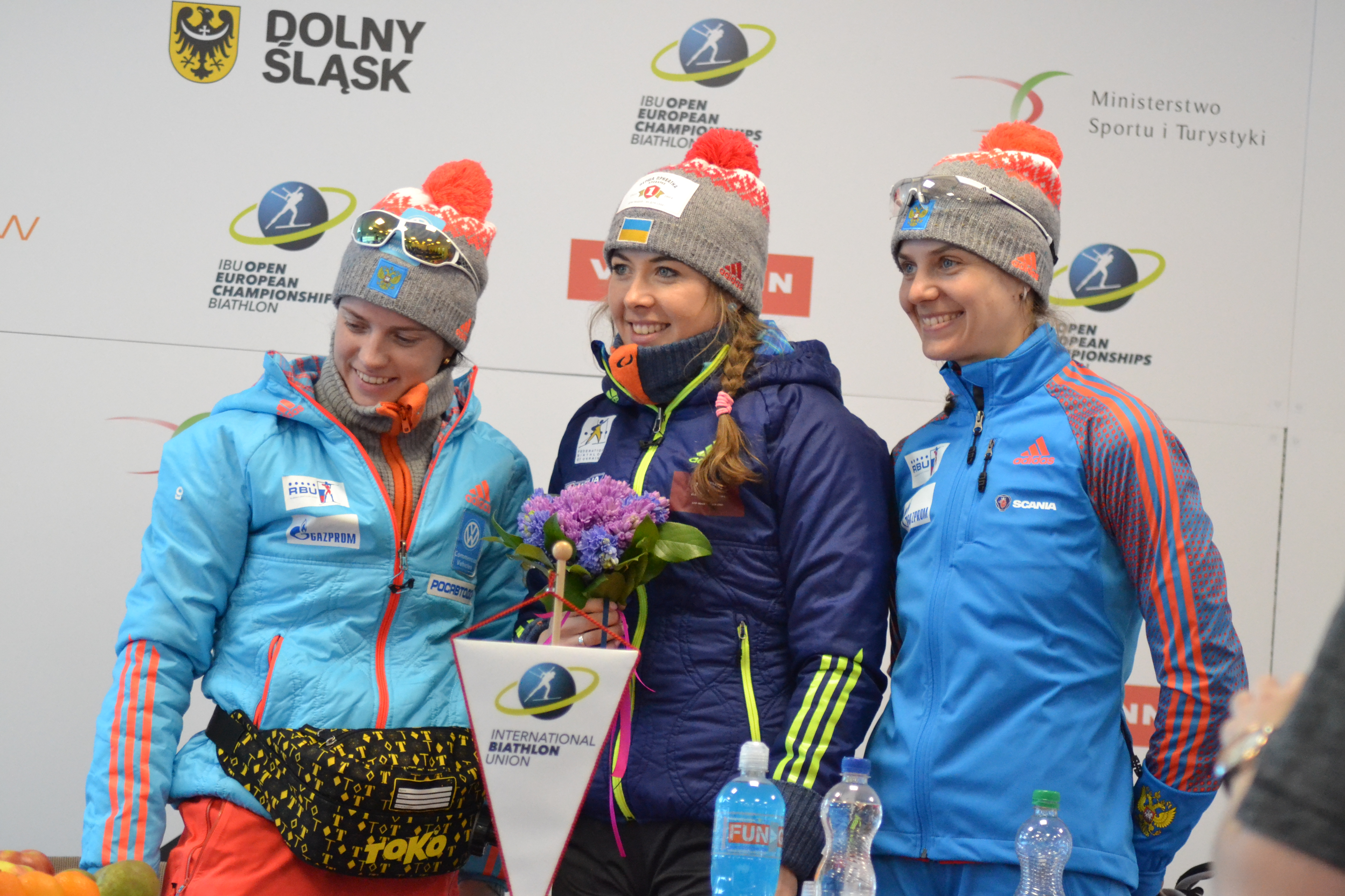 Open European Championships Biathlon 2017, Sprint Women's race, held on January 27th.